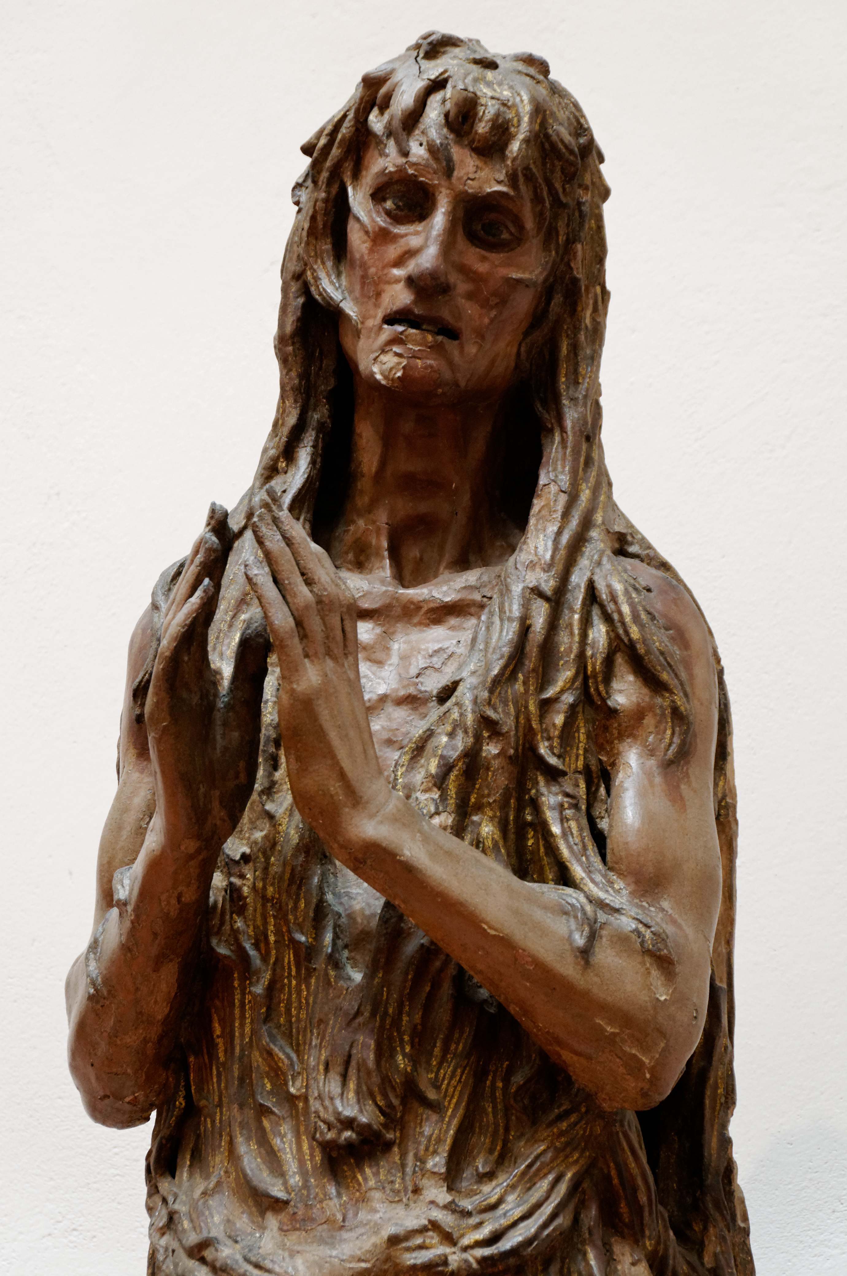 Portrait of Mary Magdalene